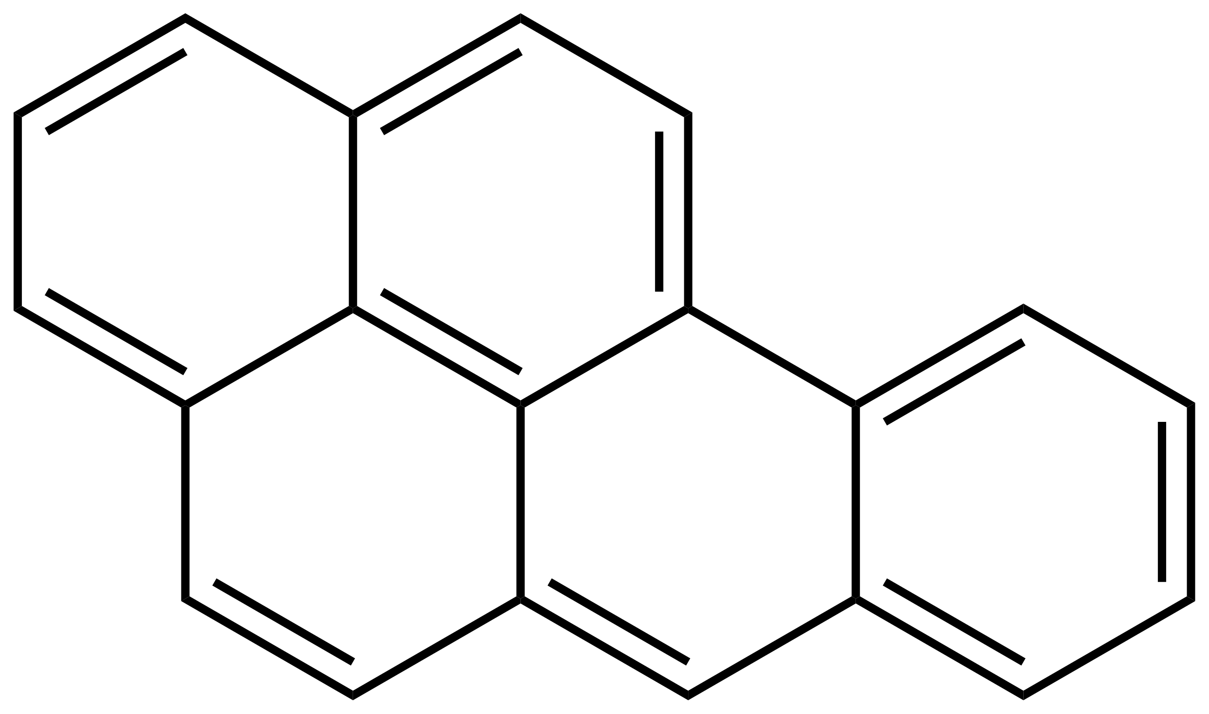 Structural formula of benzo[a]pyrene or benzo[pqr]tetraphene